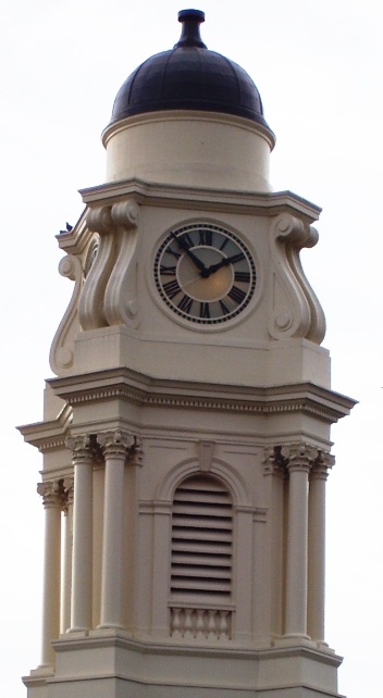 Town Hall, Irvington, NY, close-up of clock tower